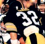 Pittsburgh Steelers' fullback Franco Harris rushing the ball against the Los Angeles Rams during Super Bowl XIV.